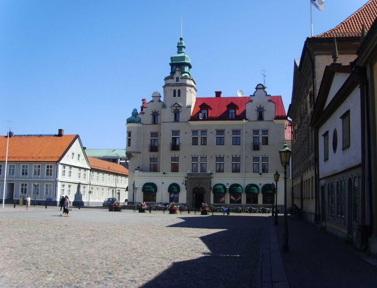 The town square "Stortorget" at the centre of Kalmar, has been a location for political, military and religious representation, and also for commercial transactions in 300 year. Here from left a wood building, the town hotel "Calmar Stadshotell" in Art Nouveau style (built 1905-1907, architect Carl Kempendahl), town hall (built 1684-1690) and fire station (built 1760).